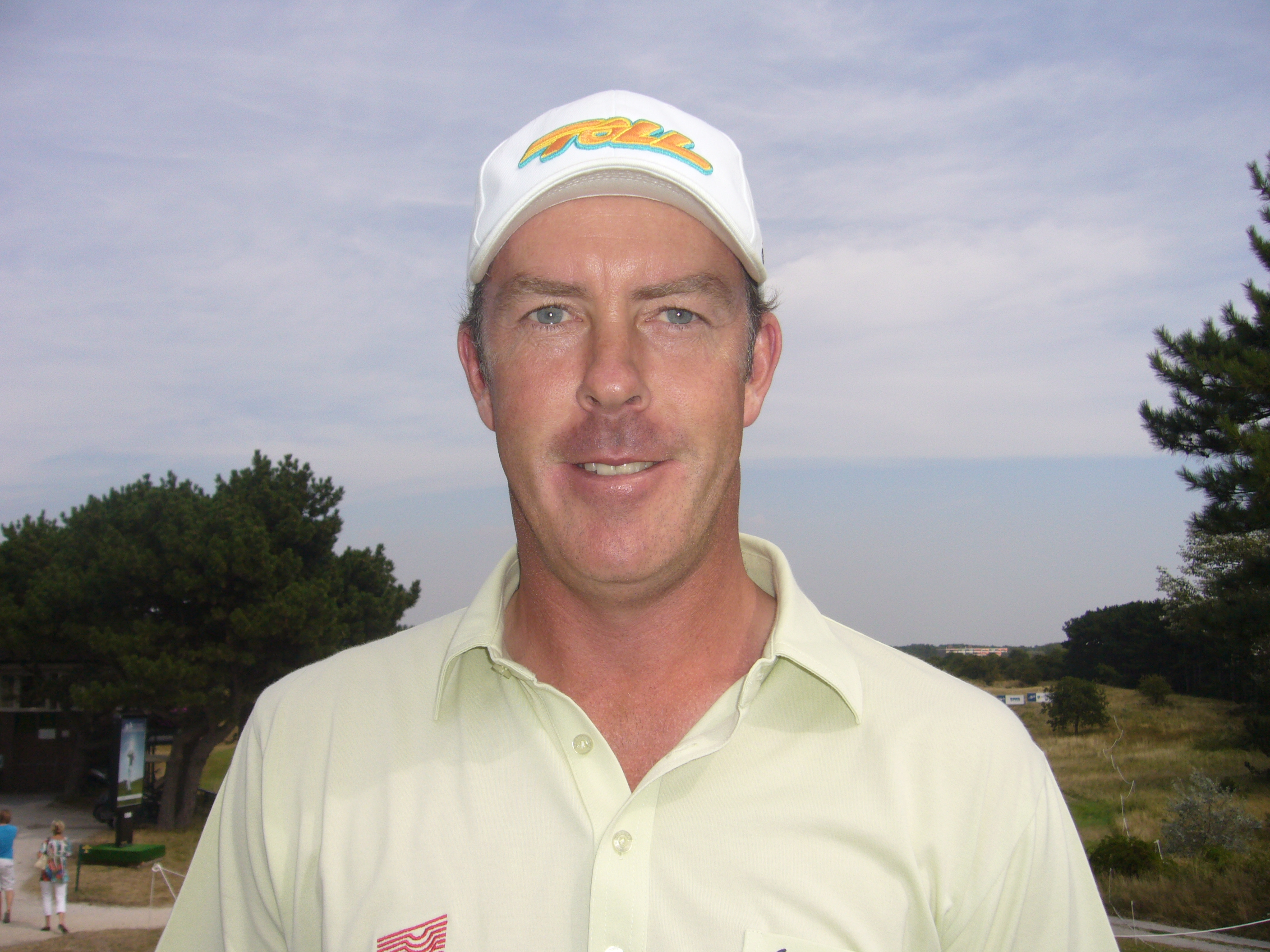 Richard Green at KLM Open 2009